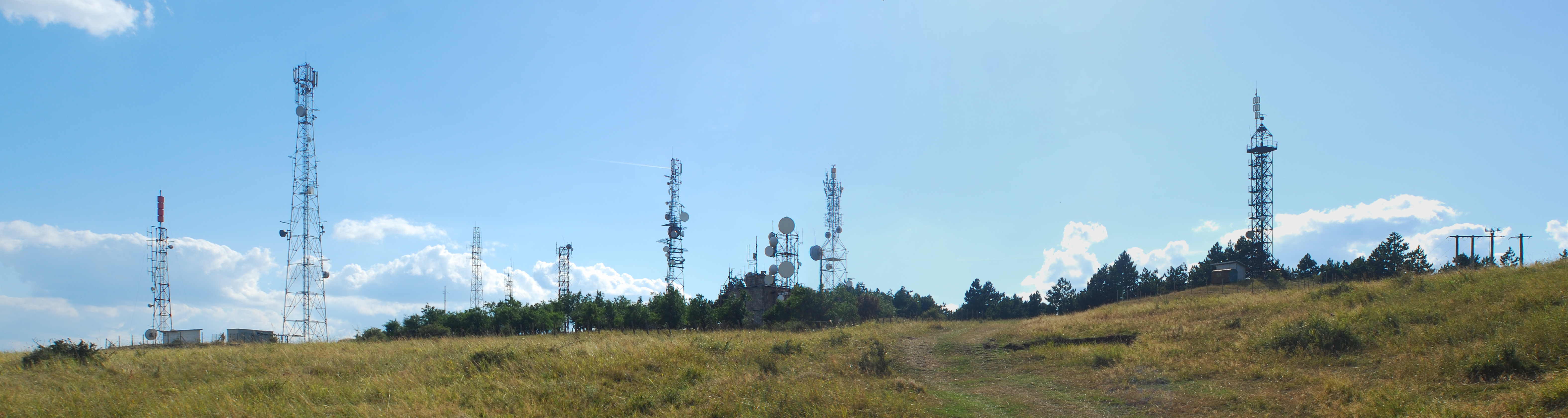 Relay station on top of Istrița hill, Buzău County, Romania